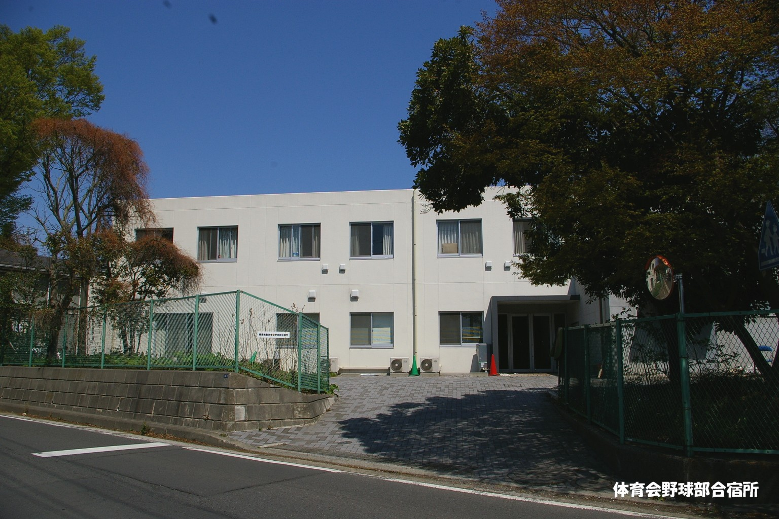 Yokohama